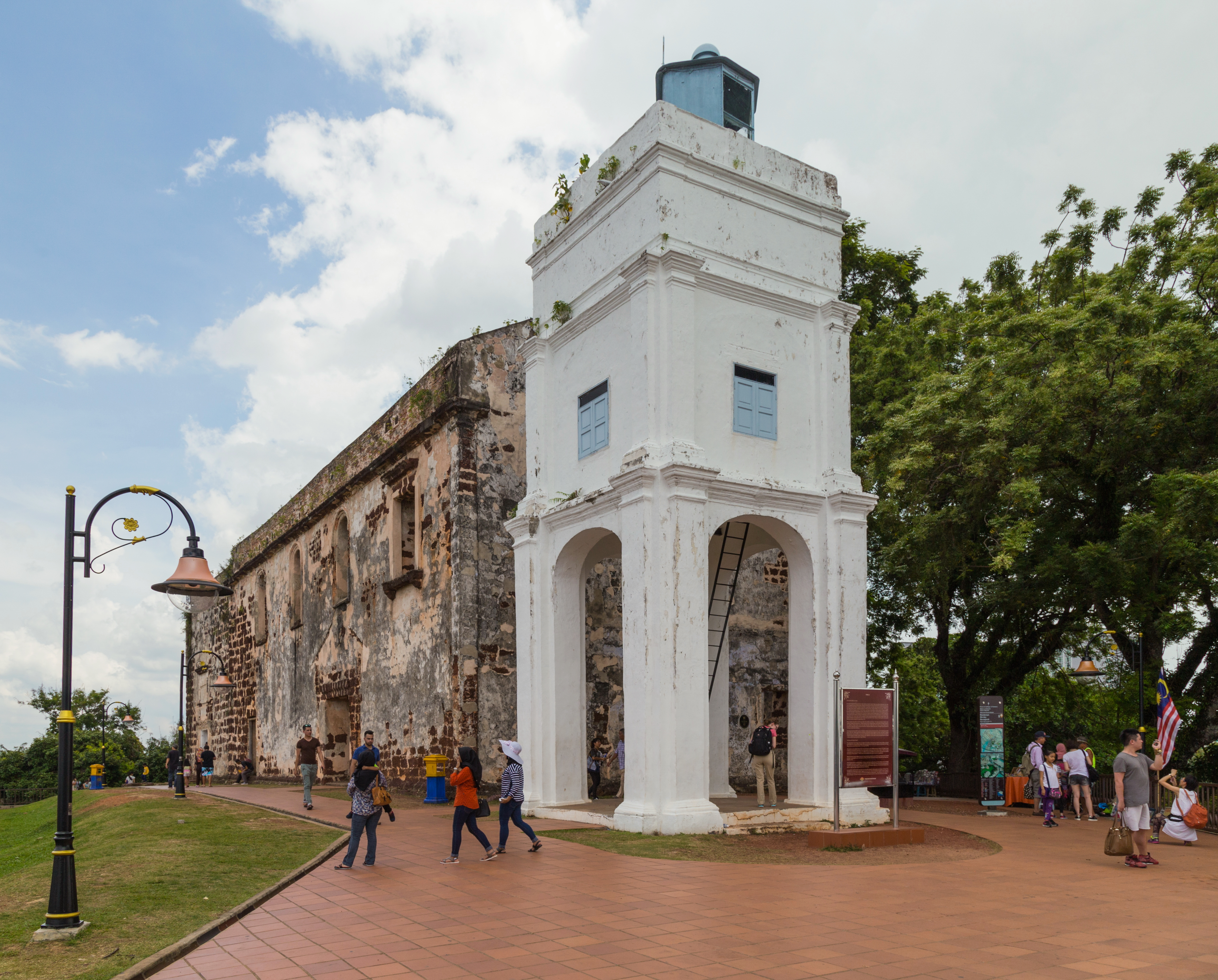 St. Paul's Church. Malacca City, Malacca, Malaysia.